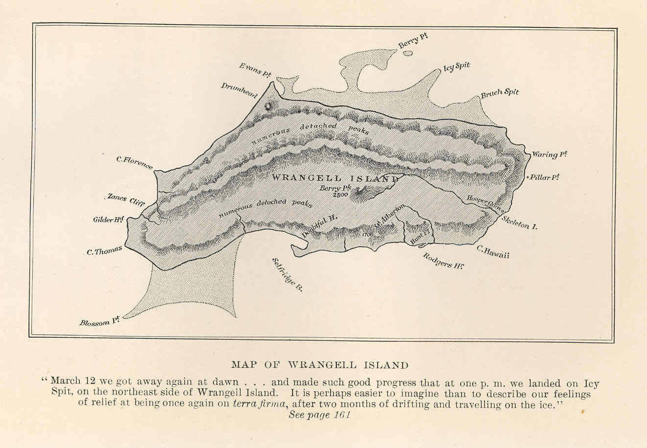 Last Voyage of the Karluk : Flagship of Vilhjalmar Stefansson's Canadian Arctic Expedition of 1913-16 Map of Wrangell Island : 'March 12 we got away again at dawn ... and made such good progress that at one p.m. we landed on Icy Spit, on the northeast side of Wrangell Island. It is perhaps easier to imagine than to describe our feelings of relief at being once again on terra firma, after two months of drifting and travelling on the ice.'